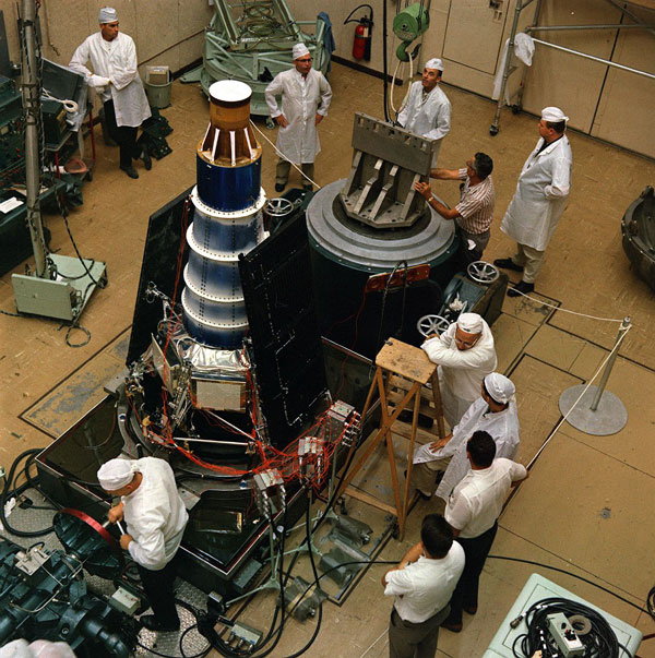 Slice of History Blogs In 1963, spacecraft vibration tests were conducted in the Environmental Laboratory at NASA's Jet Propulsion Laboratory in Pasadena, Calif. A slab of granite, coated in oil, provided a smooth and stable base for the magnesium slip plate, test fixture and Ranger 6 spacecraft mounted on it. There were vibration exciters (shakers) on each end, capable of more than 25,000 pounds of force. The horizontal fixture at left was used for low frequency vibration testing, and the equipment was capable of testing along all three spacecraft axes. During the 1960s, Ranger, Surveyor and Mariner spacecraft were developed, built and tested at JPL. Because of the heavy use, a similar but smaller test fixture was used for vibration tests on spacecraft components and assemblies. Building 144 still contains test facilities, but this equipment was removed and the room now contains an acoustic chamber.